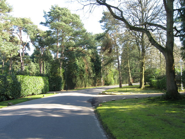 East Road, St George's Hill View south, on this private road on a private estate.